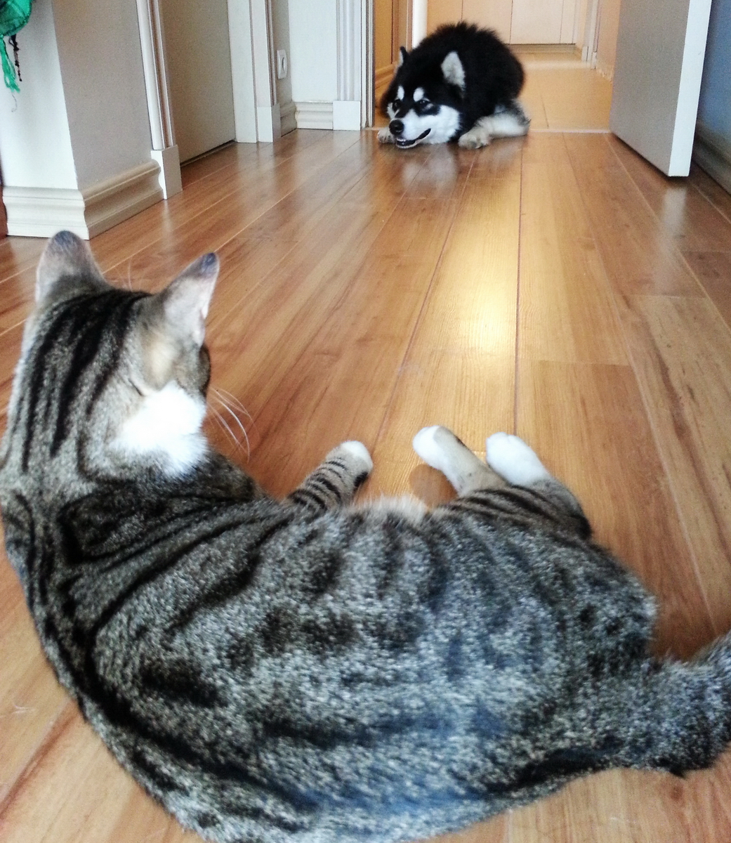 Domestic cat living with an alaskan malamute dog